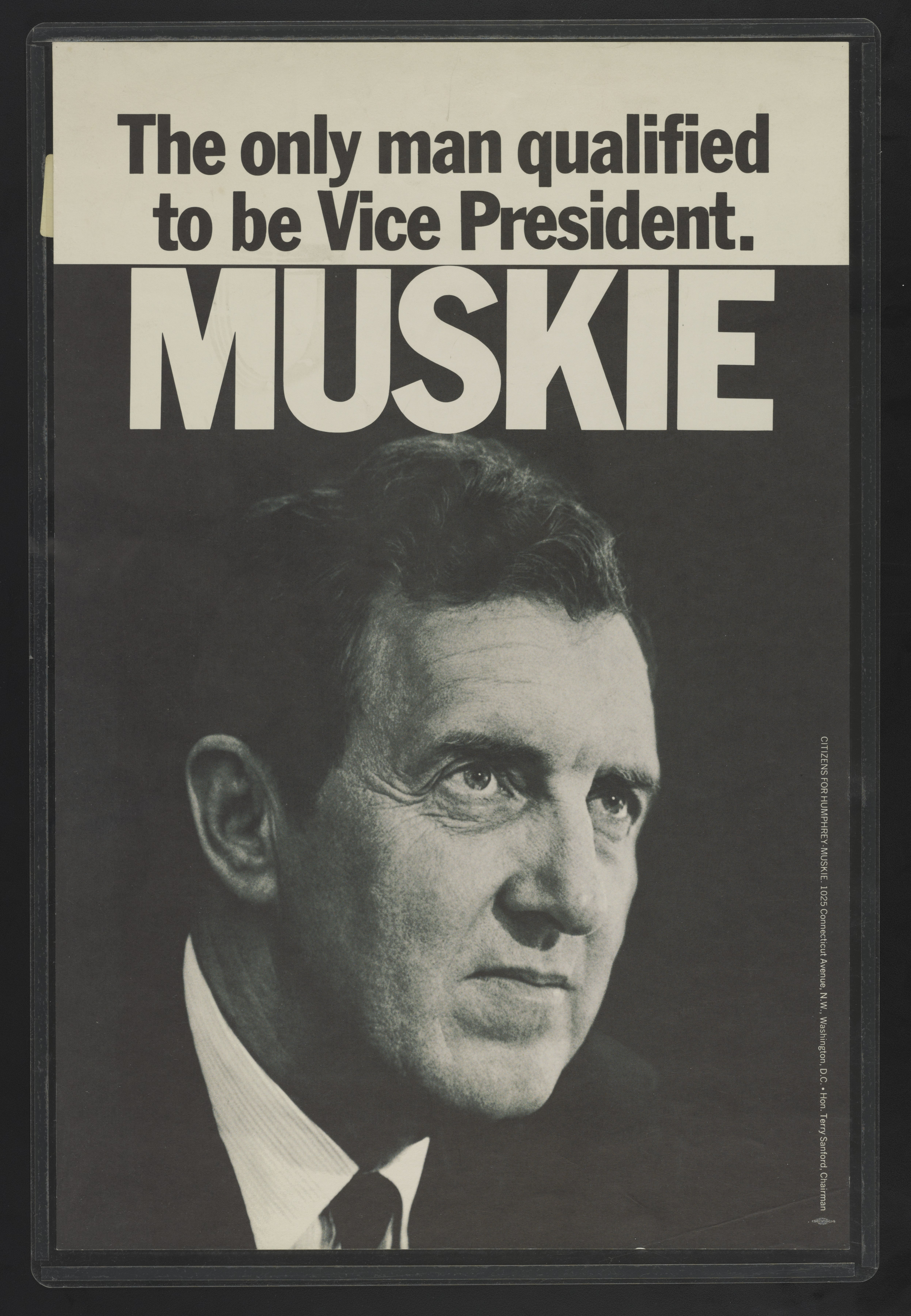 Title: The only man qualified to be Vice President : Muskie Abstract: 1 print ; (poster format)